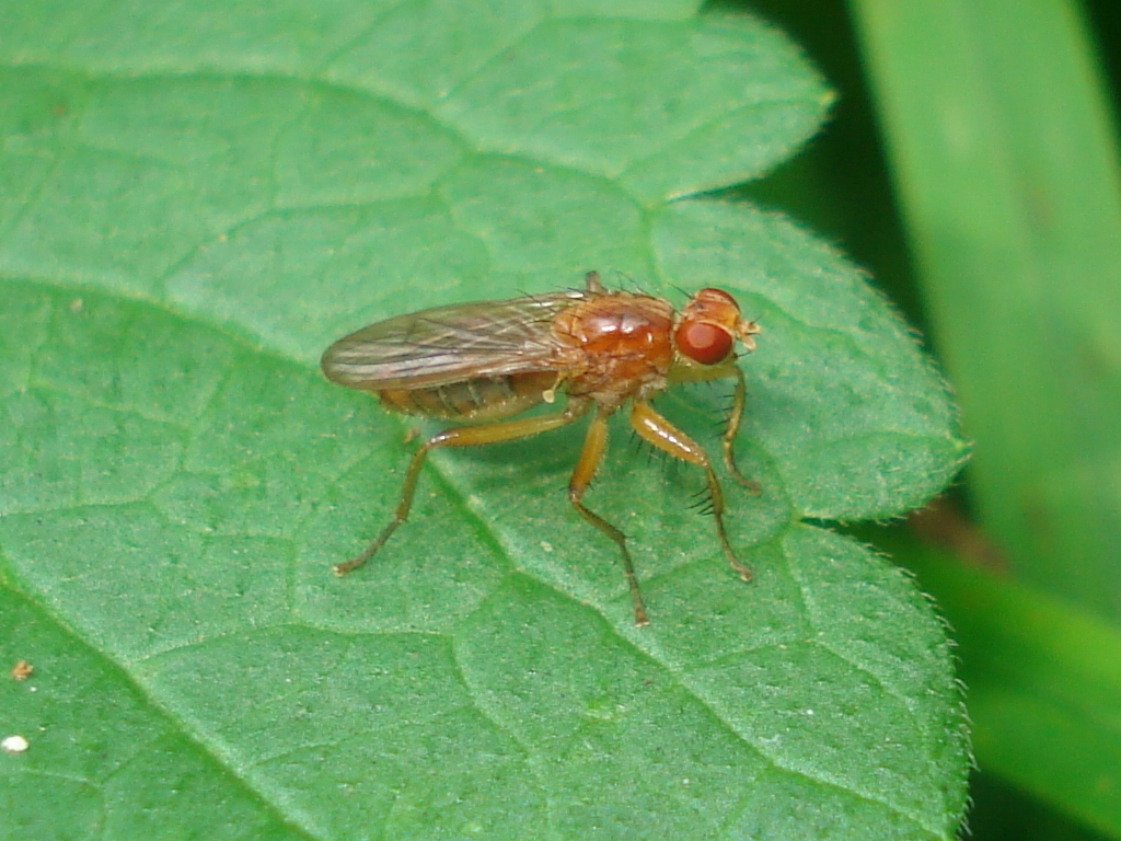 Norellisoma spinimanum Norellisoma spinimanum